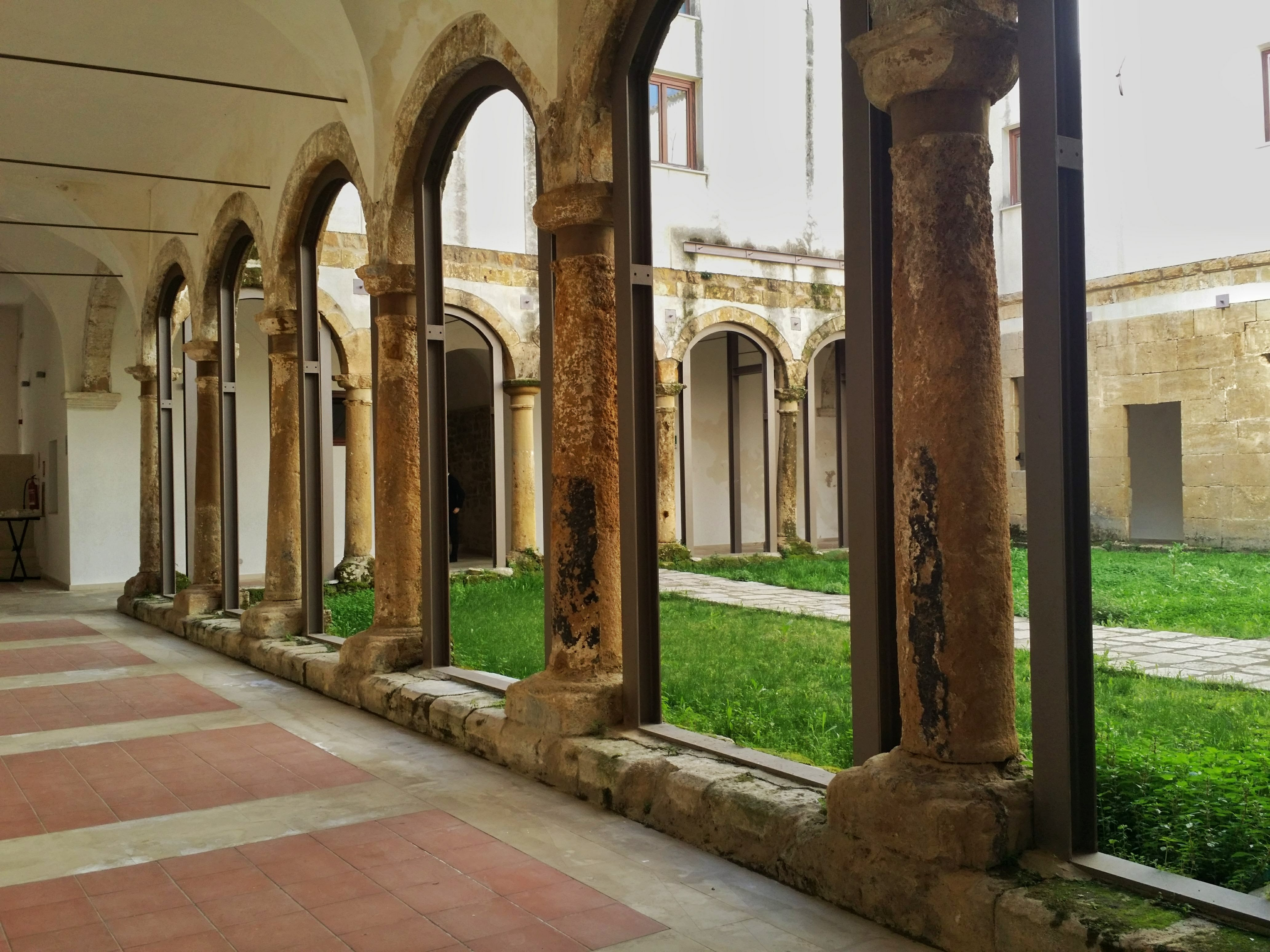 Cloister inside the convent of the church of San Domenico in Caltanissetta, Italy